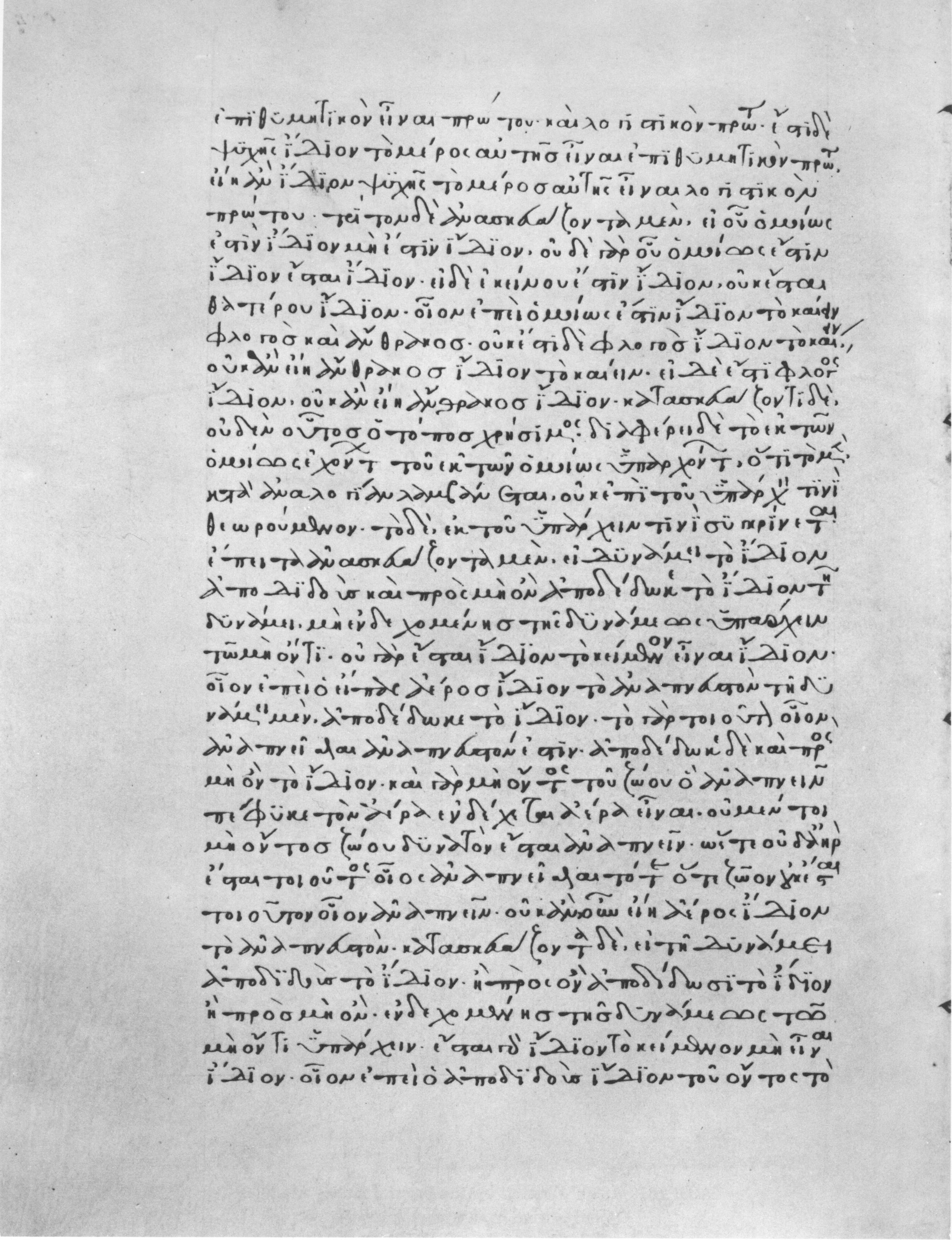 Aristotle, Topics, in ms. Venice, Biblioteca Marciana, Gr. IV,5, fol. 313v.